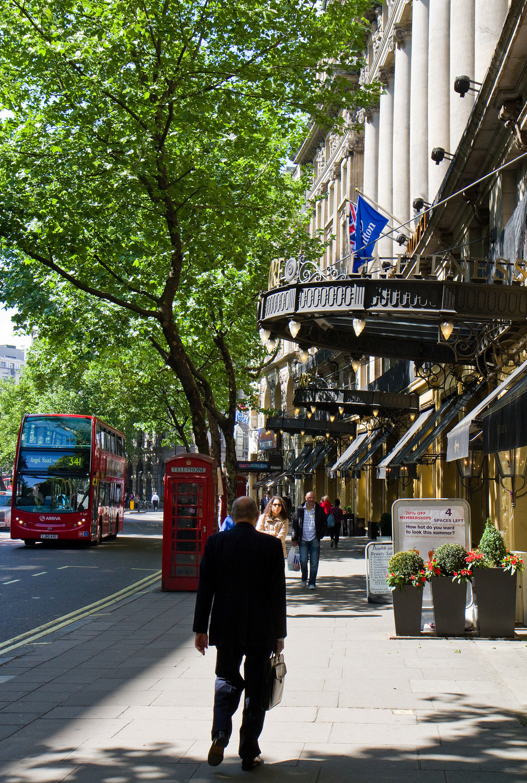 The Waldorf Hilton in Aldwych, London.